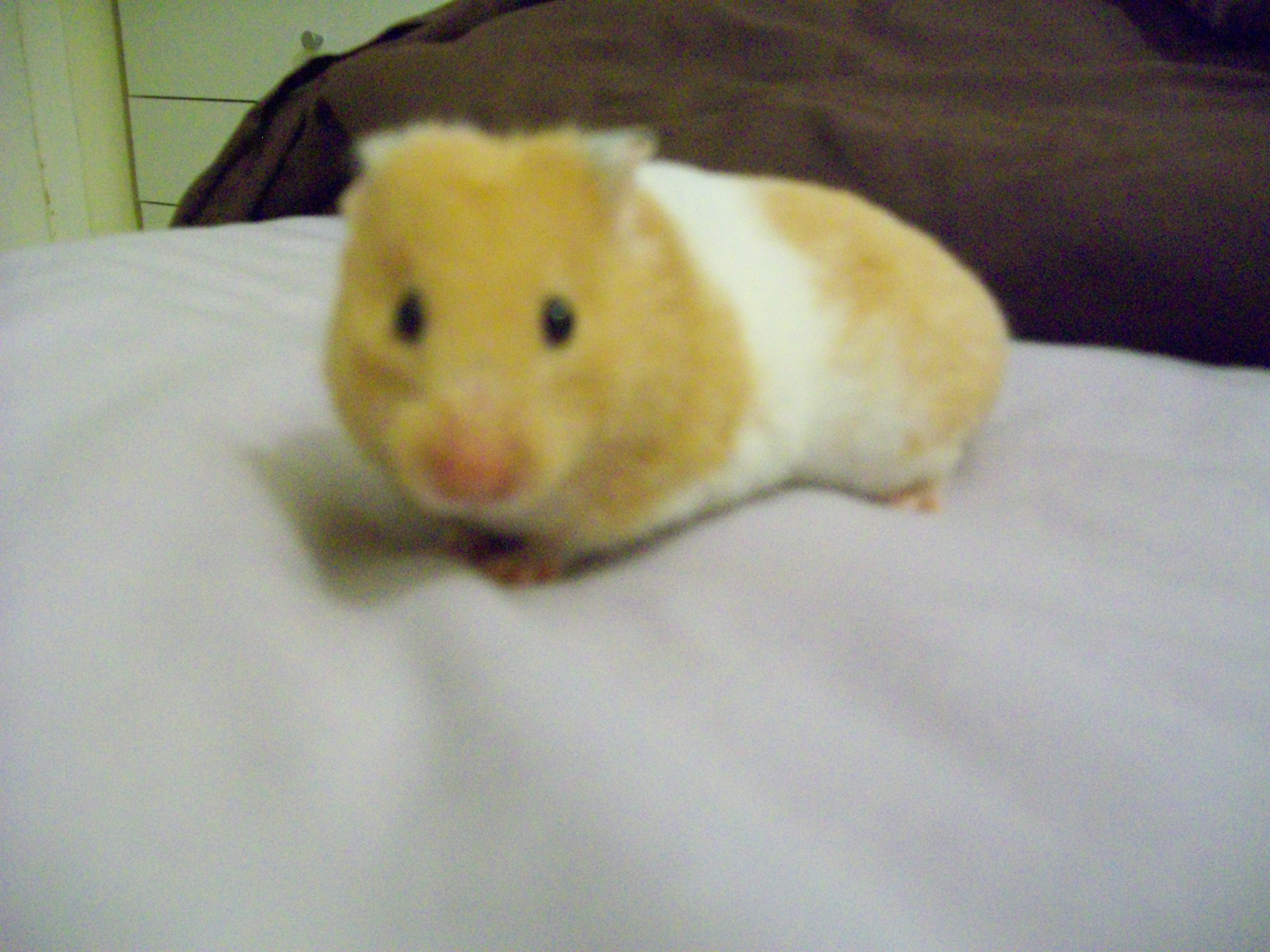 A banded cream syrian hamster, Sally.